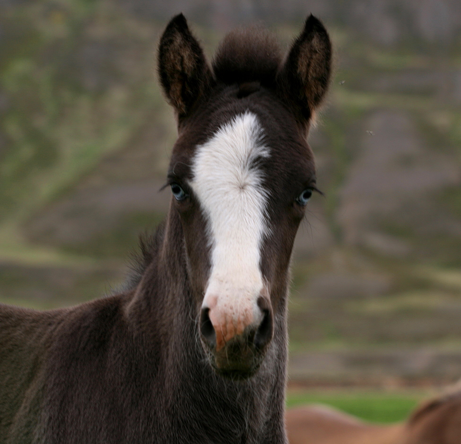 Icelandic foal with a blaze and blue eyes. Probably a splashed white since white markings this large as well as blue eyes are rarely caused by other factors in Icelancid horses.